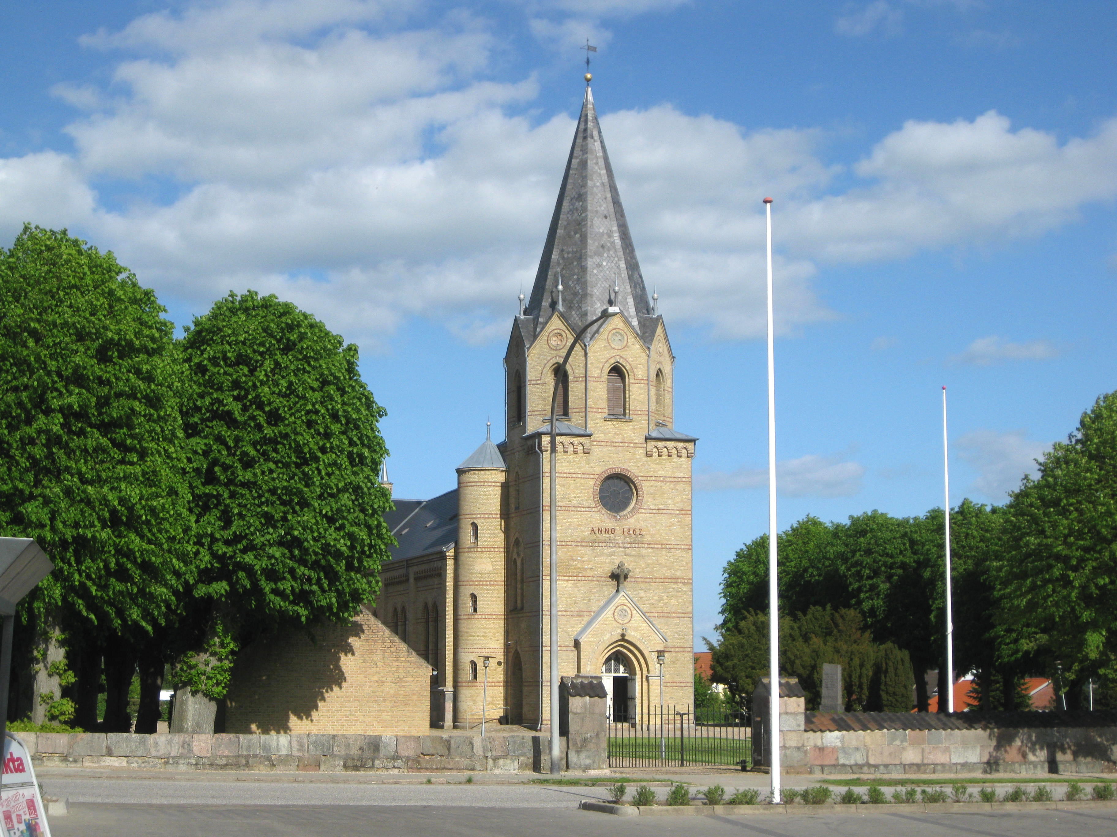 The church "Tyrstrup Kirke" in the small town "Christiansfeld". The town is located in Southern Jutland, Denmark.